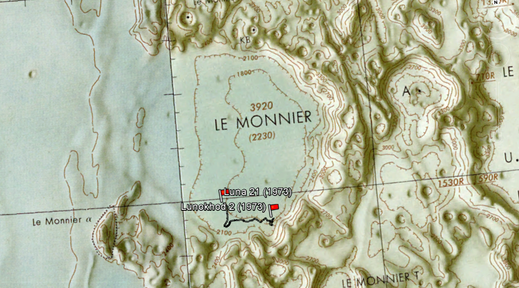 Used Google Earth/Moon, a public domain overlay of a US Air Force map from the early 1960s. Shows the Lunokhod 2 and Luna 21, with the named crater. "The United States Air Force created this LAC series of Lunar charts in the early 1960s to support the U.S. space program. It reflects scientists’ best understanding of the topography of the near side of the Moon at that time. This mosaic has been assembled from 44 pieces, each of which was originally a complete chart that included detailed information about the topography of that region"